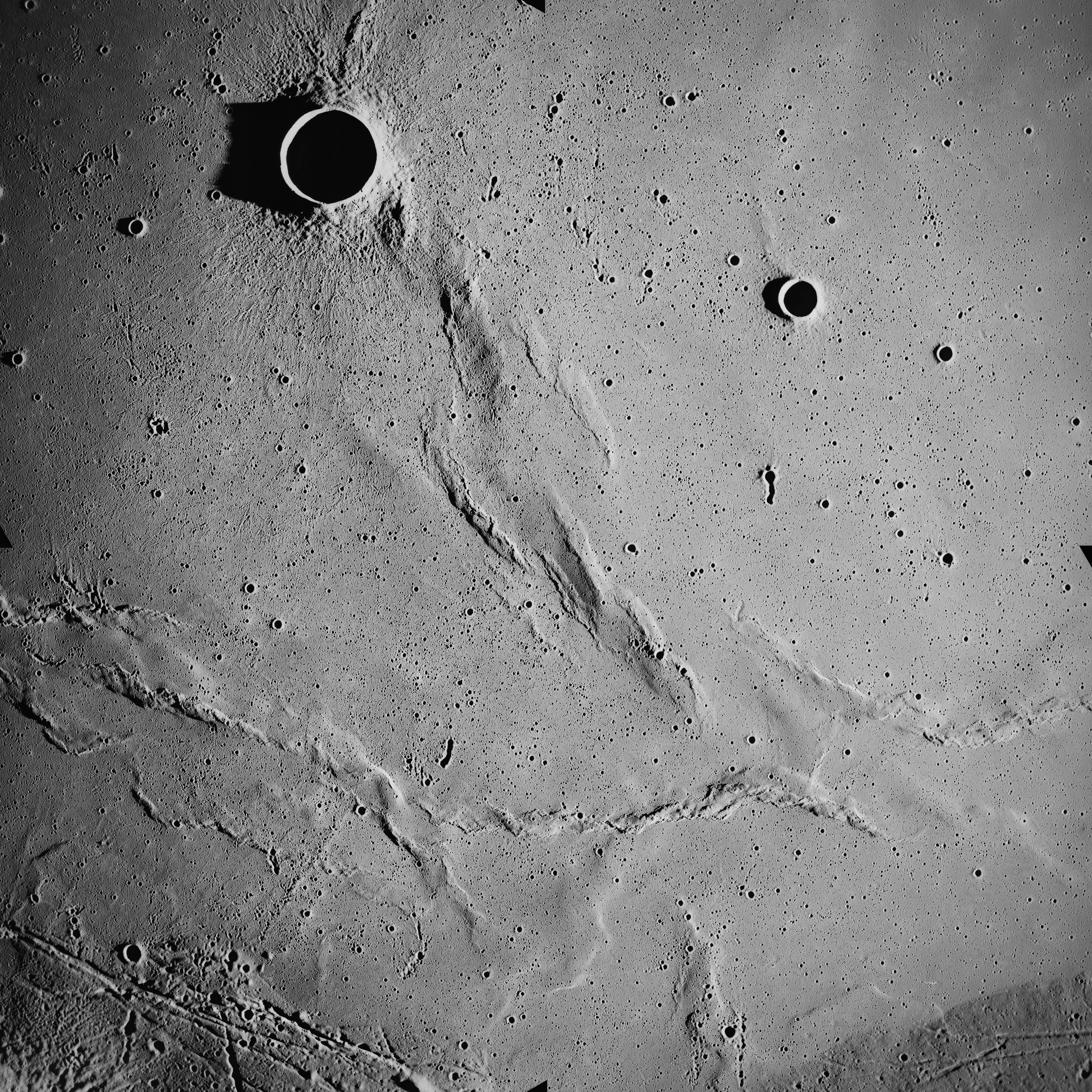 The Bessel crater (left), and the Deseilligny (right) as seen from the Apollo 17 CSM, shot by the Apollo Lunar Mapping Camera. The photo is based on the original uncompressed scan.